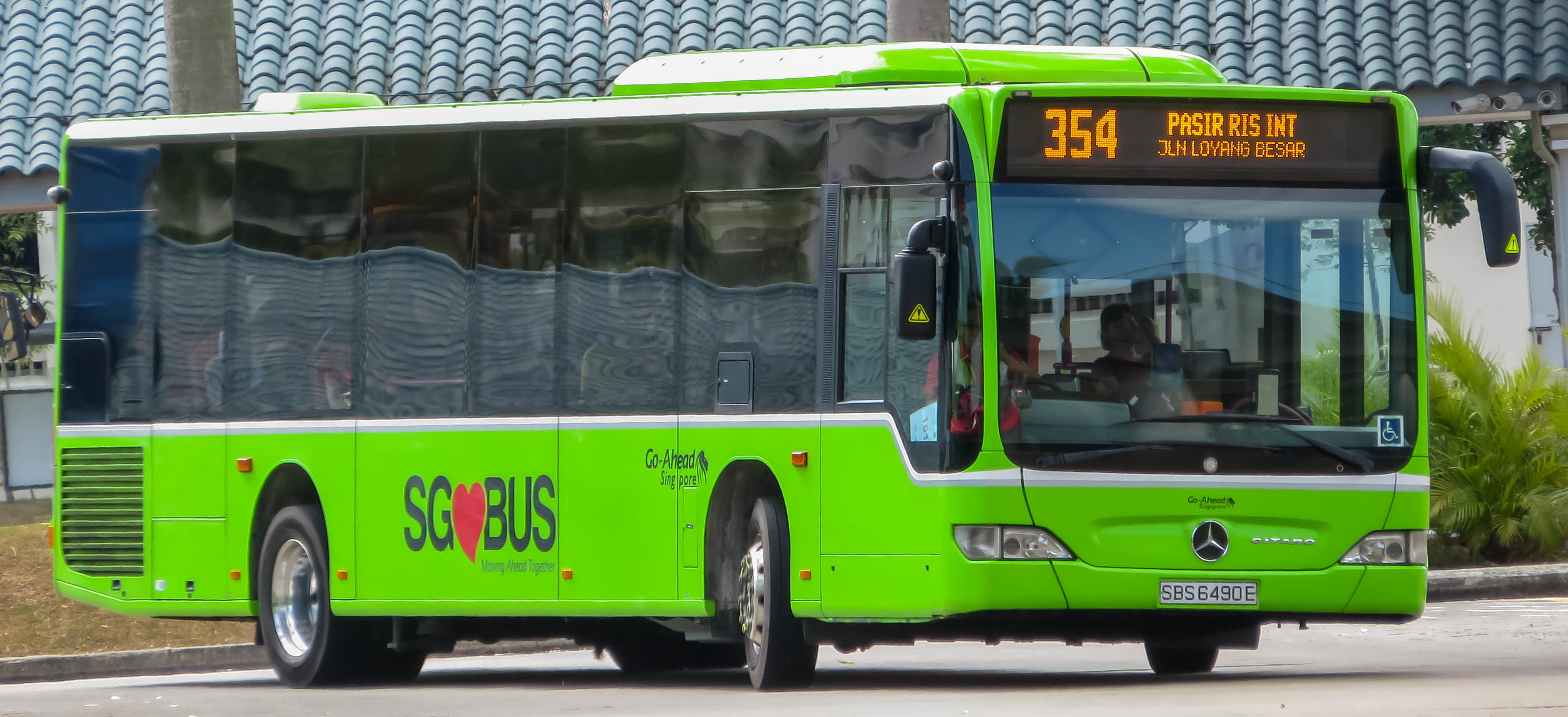 SBS6490E - 354